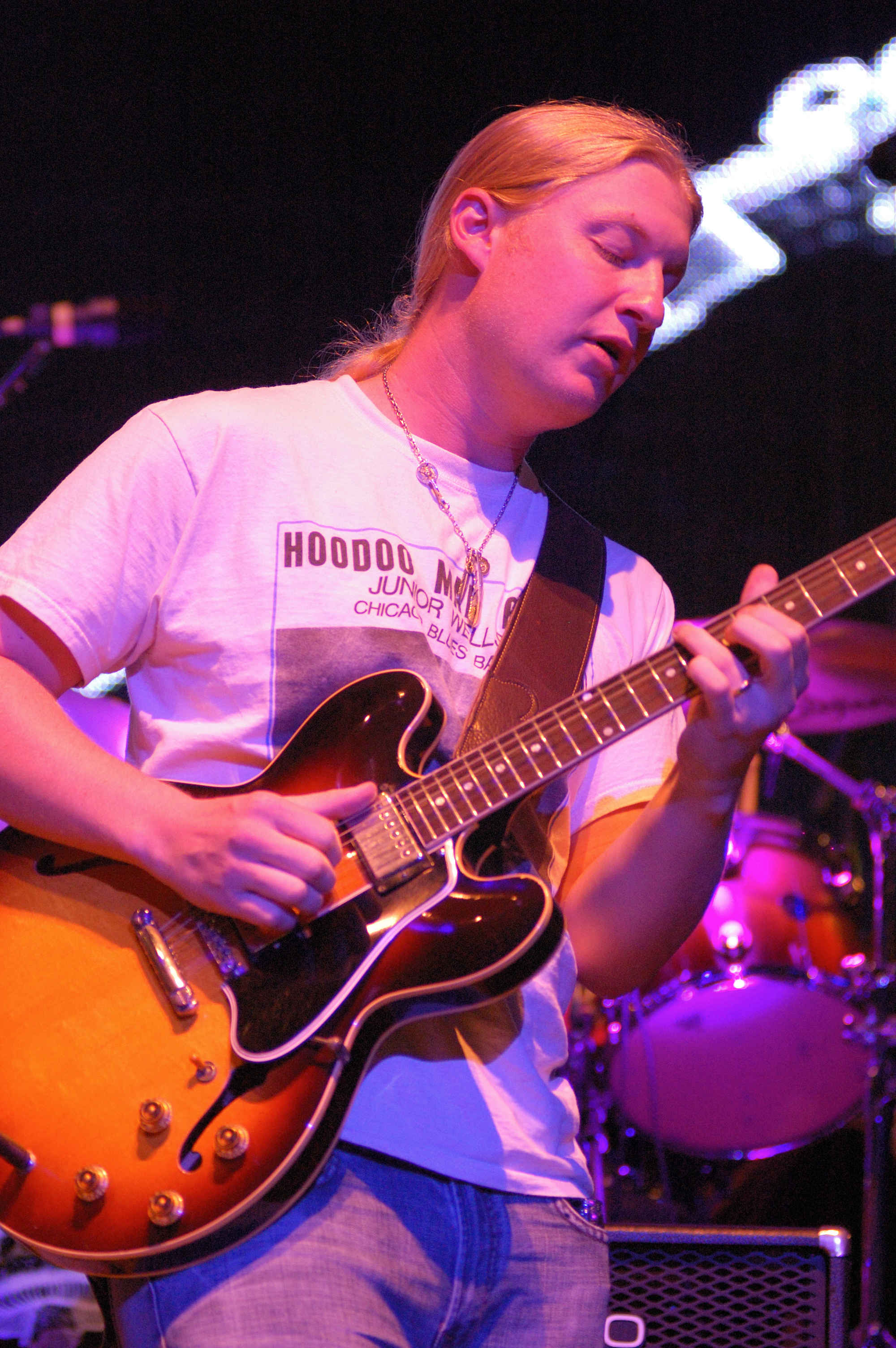 Oct. 2009 - Derek Trucks with the Allman Brothers Band at the Hard Rock Hotel